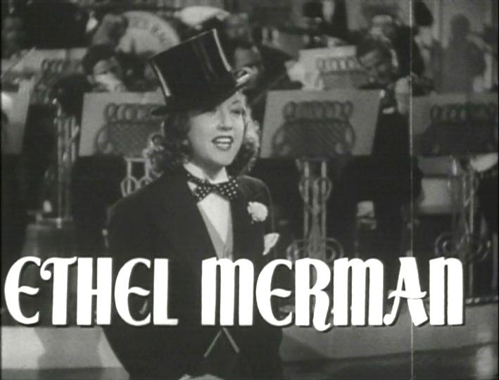 Screenshot of Ethel Merman from the trailer for the film Alexander's Ragtime Band